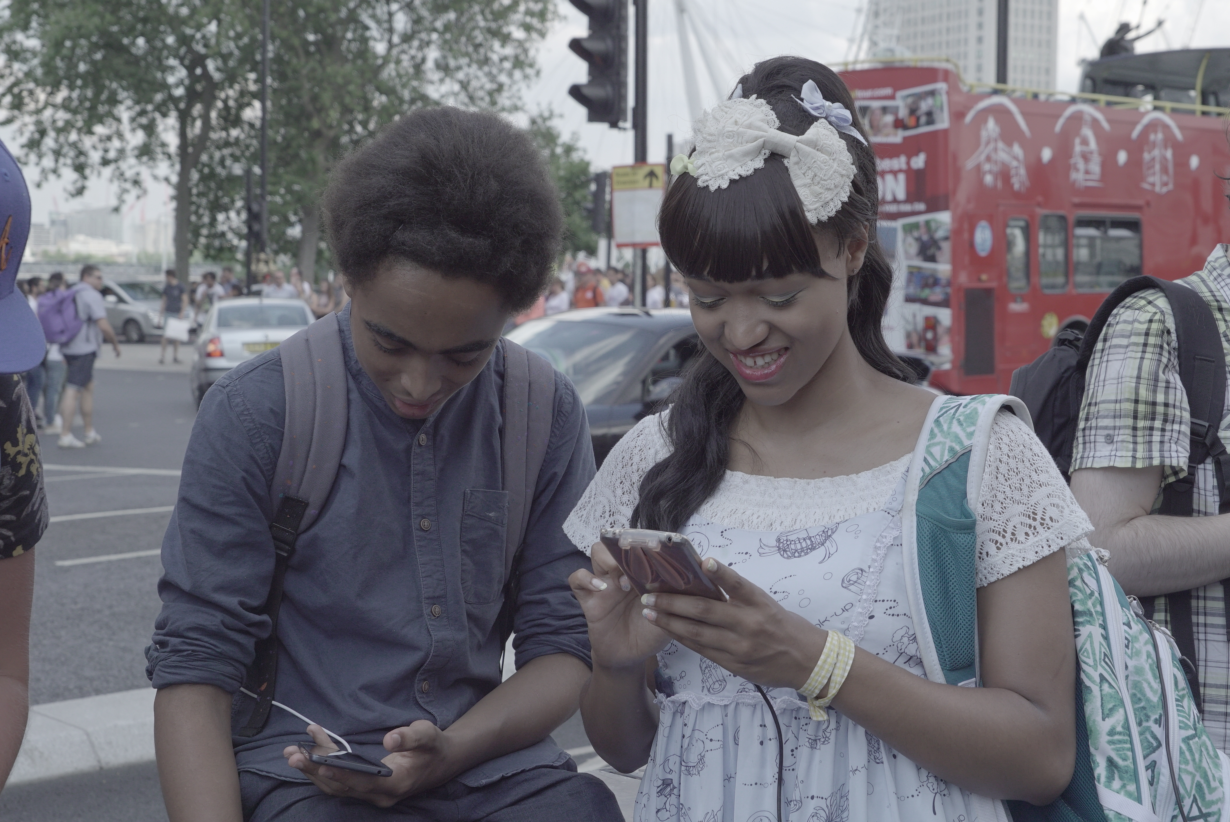 Participants in the Pokémon GO public event in London